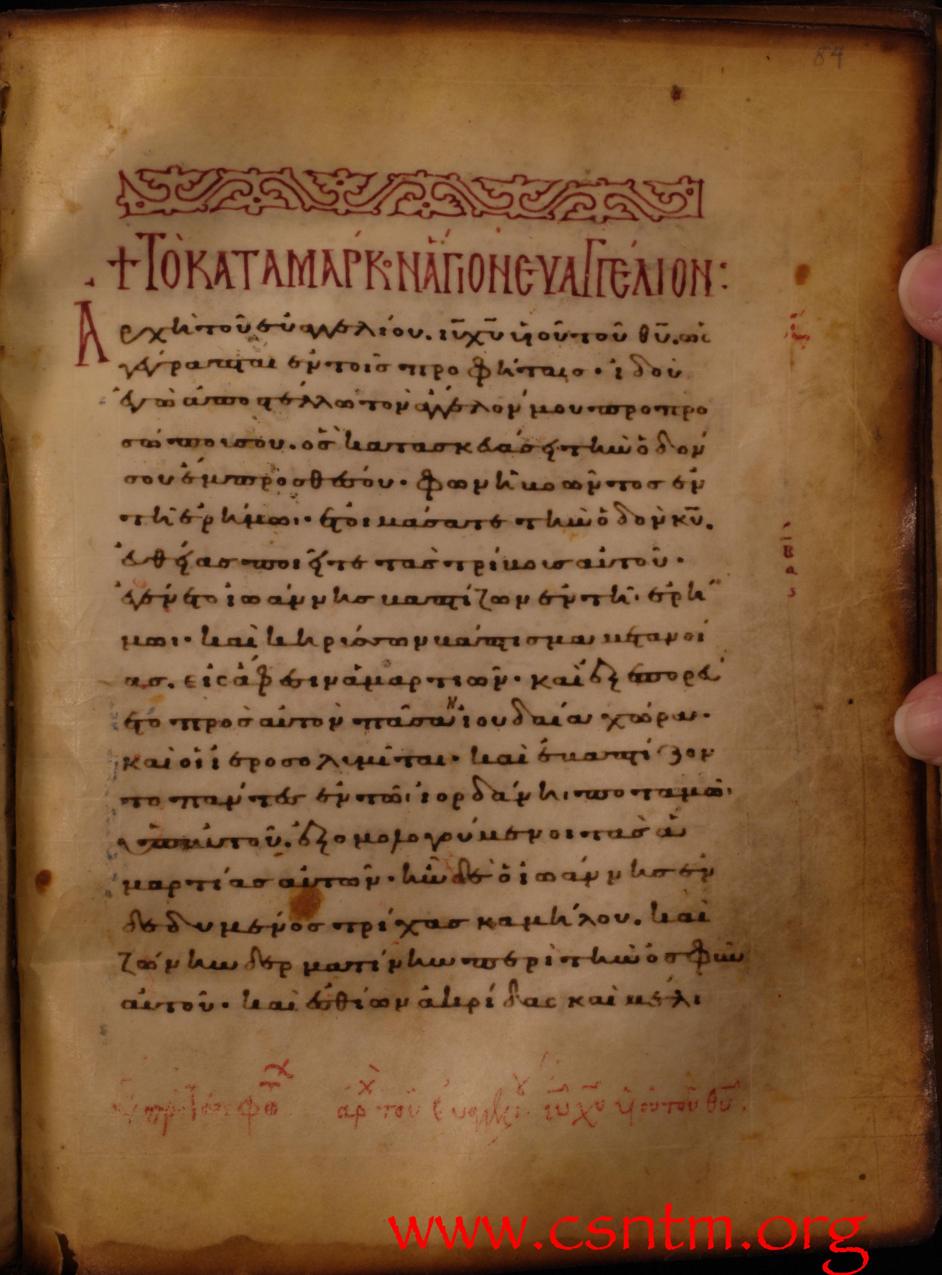 folio 84 recto of the codex, the beginning of Mark